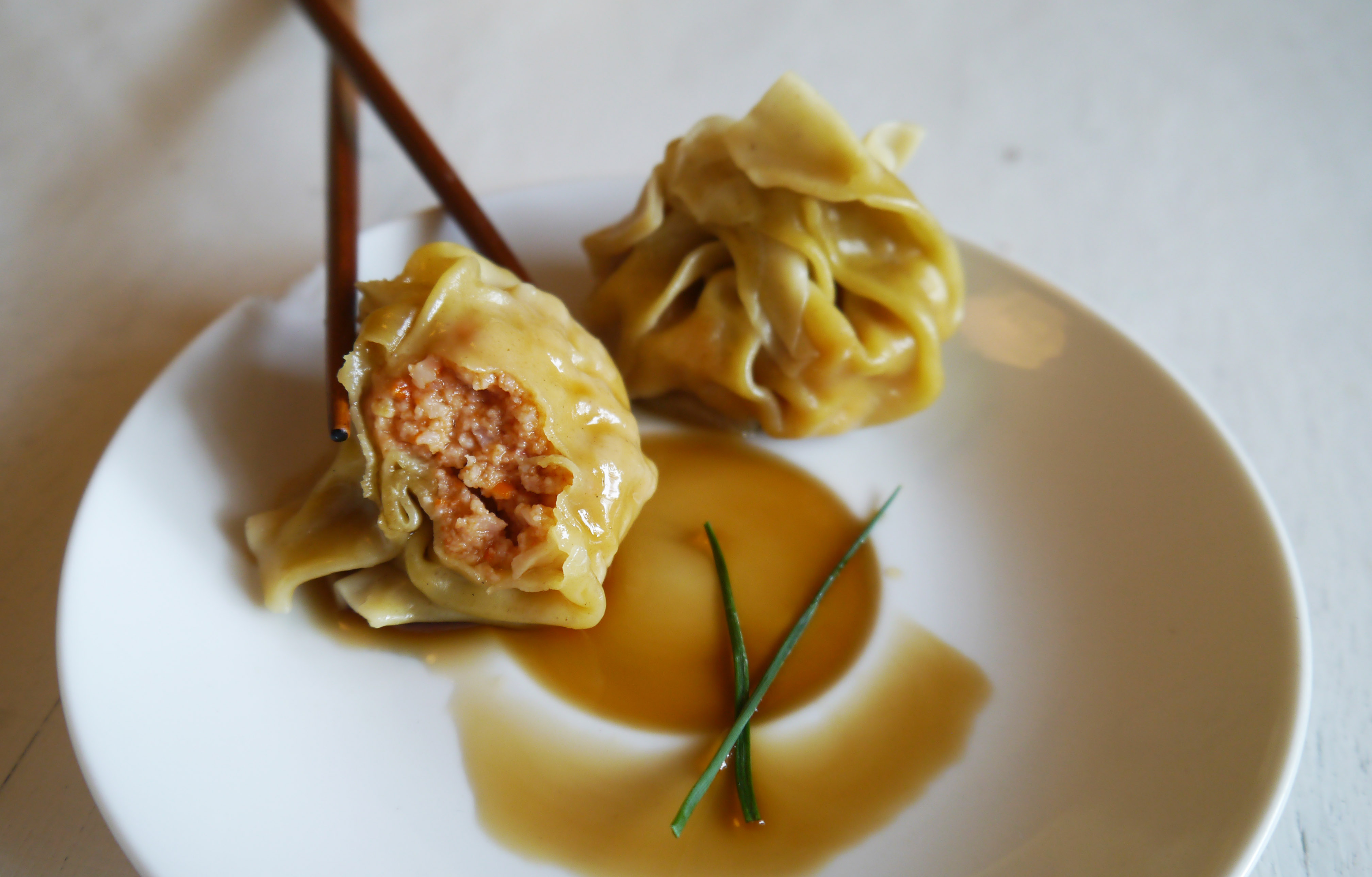 Dumplings filled with crab and pork